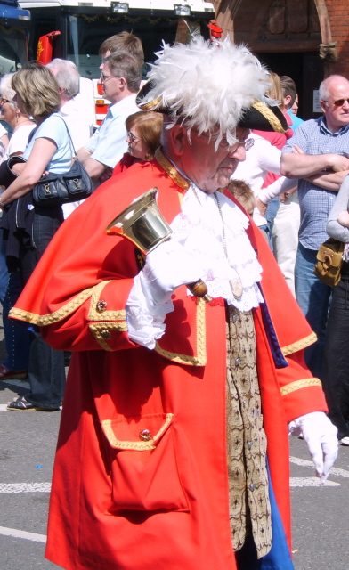 Sandbach Town Crier at Sandbach Transport Festival. The Towns Criers competition was on the same day he led the proceedings.